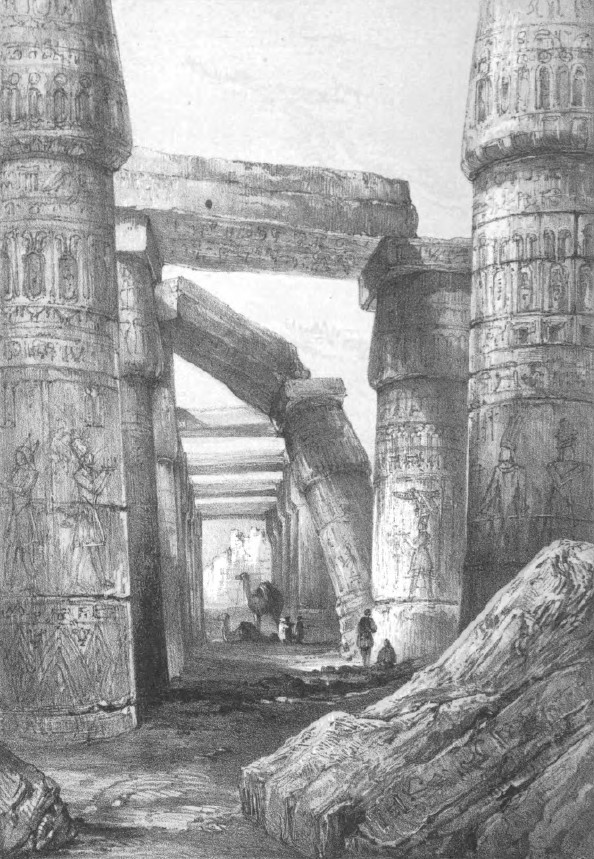 Sketch of ancient Egyptian ruins from George Henry Wathen's 1843 book on the "Antiquities and Chronology of Ancient Egypt" - Temple Palace of Karnak, Hall of Columns. Looking N.W.